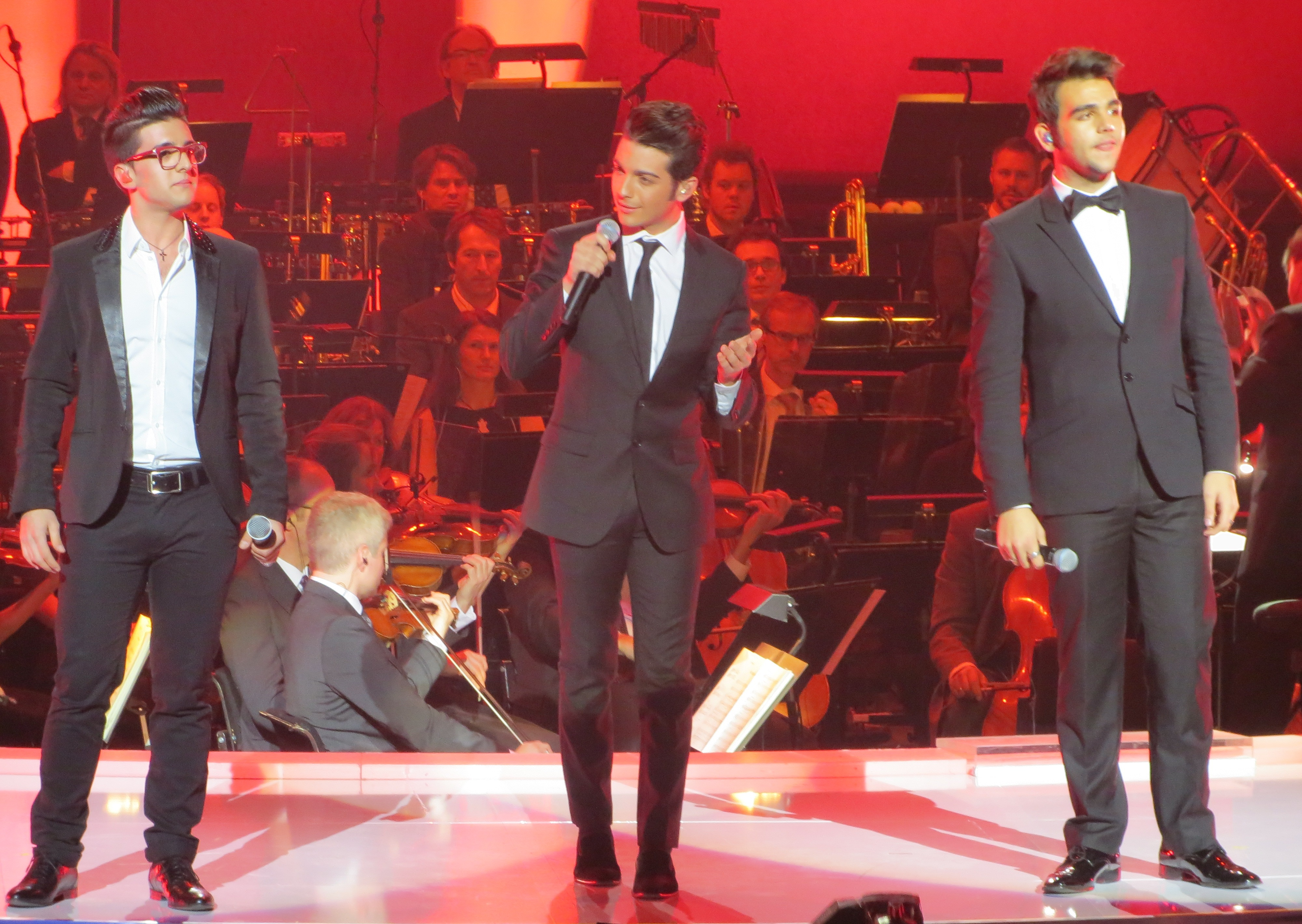 Photo from the Nobel Peace Prize Concert 2012 in Oslo, Norway